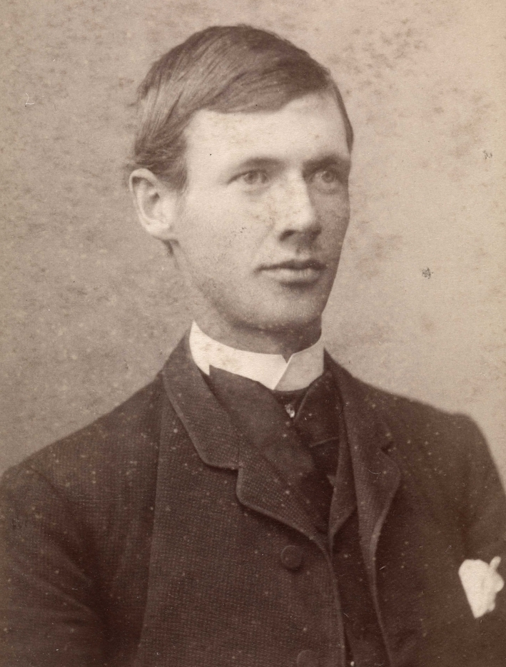 Otto Bahr Halvorsen 1888. Prime Minister of Norway 1920-1921 and 1923